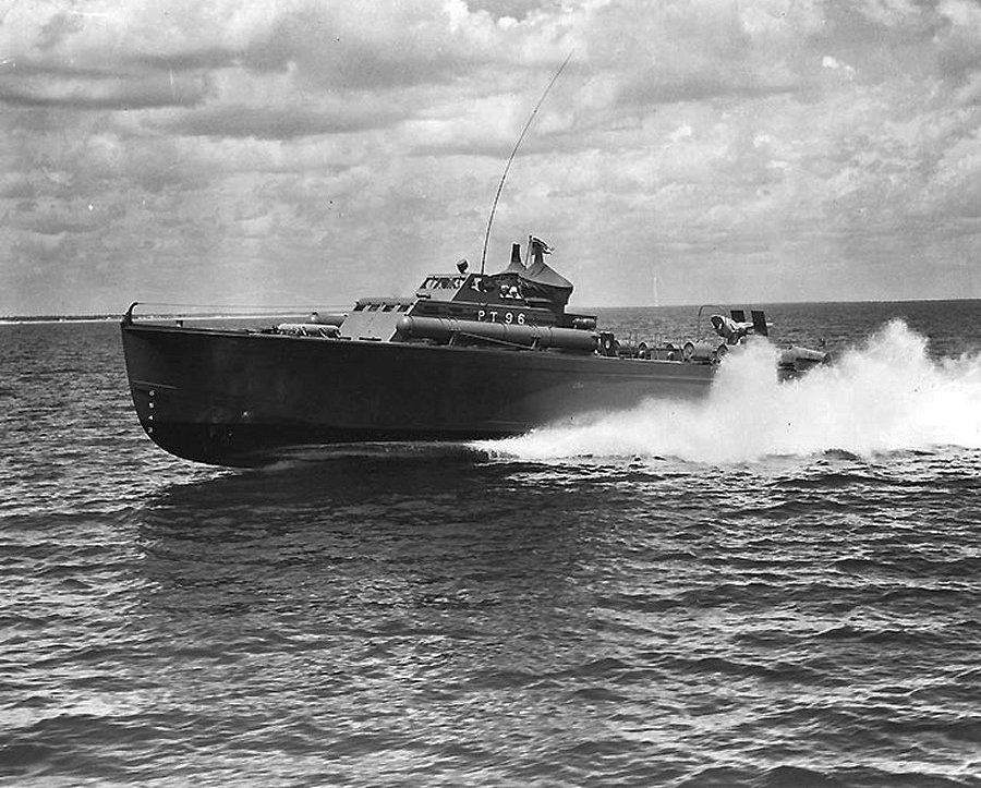 USS PT-96 underway at high speed, circa 1942. Official U.S. Navy Photograph, from the collections of the Naval History and Heritage Command.